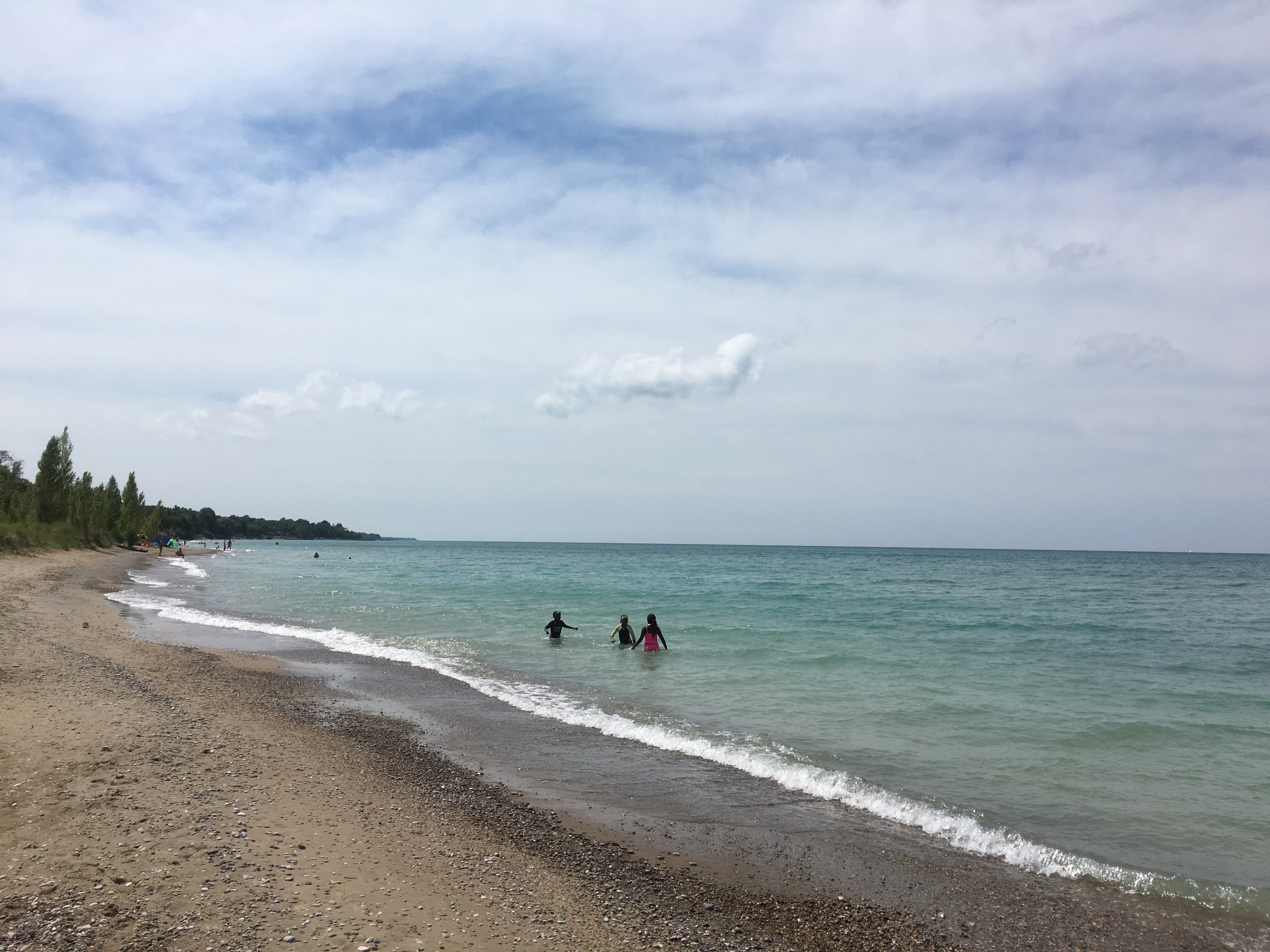 Beach in Kincardine, Ontario, Canada taken during summer 2016.